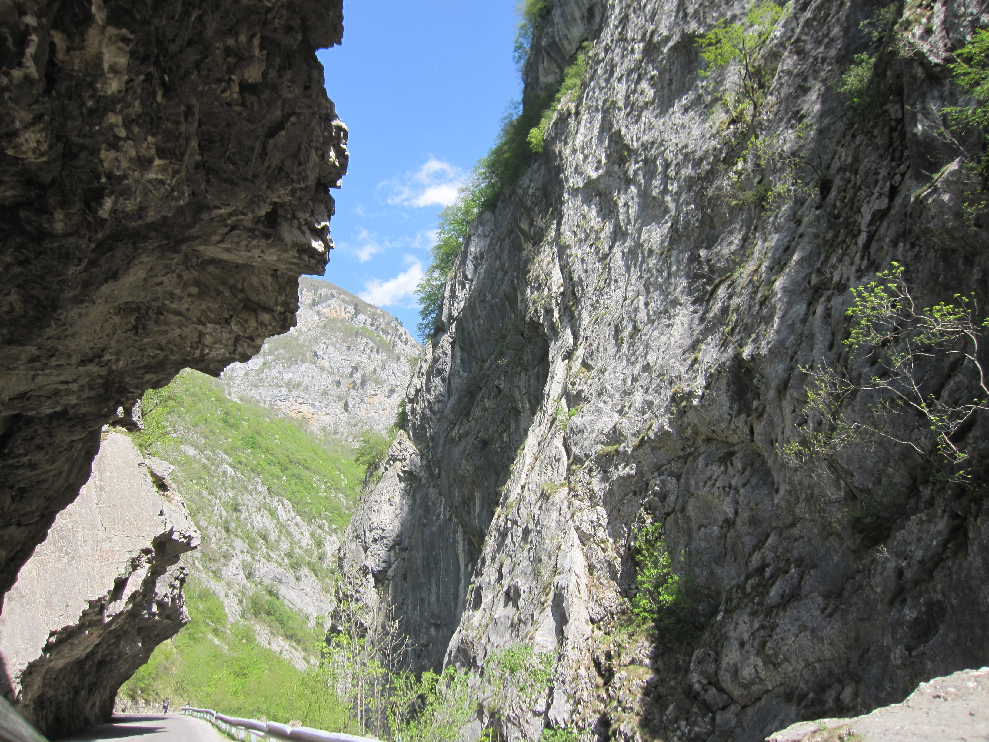 Rugova canyon, Peja, Kosovo